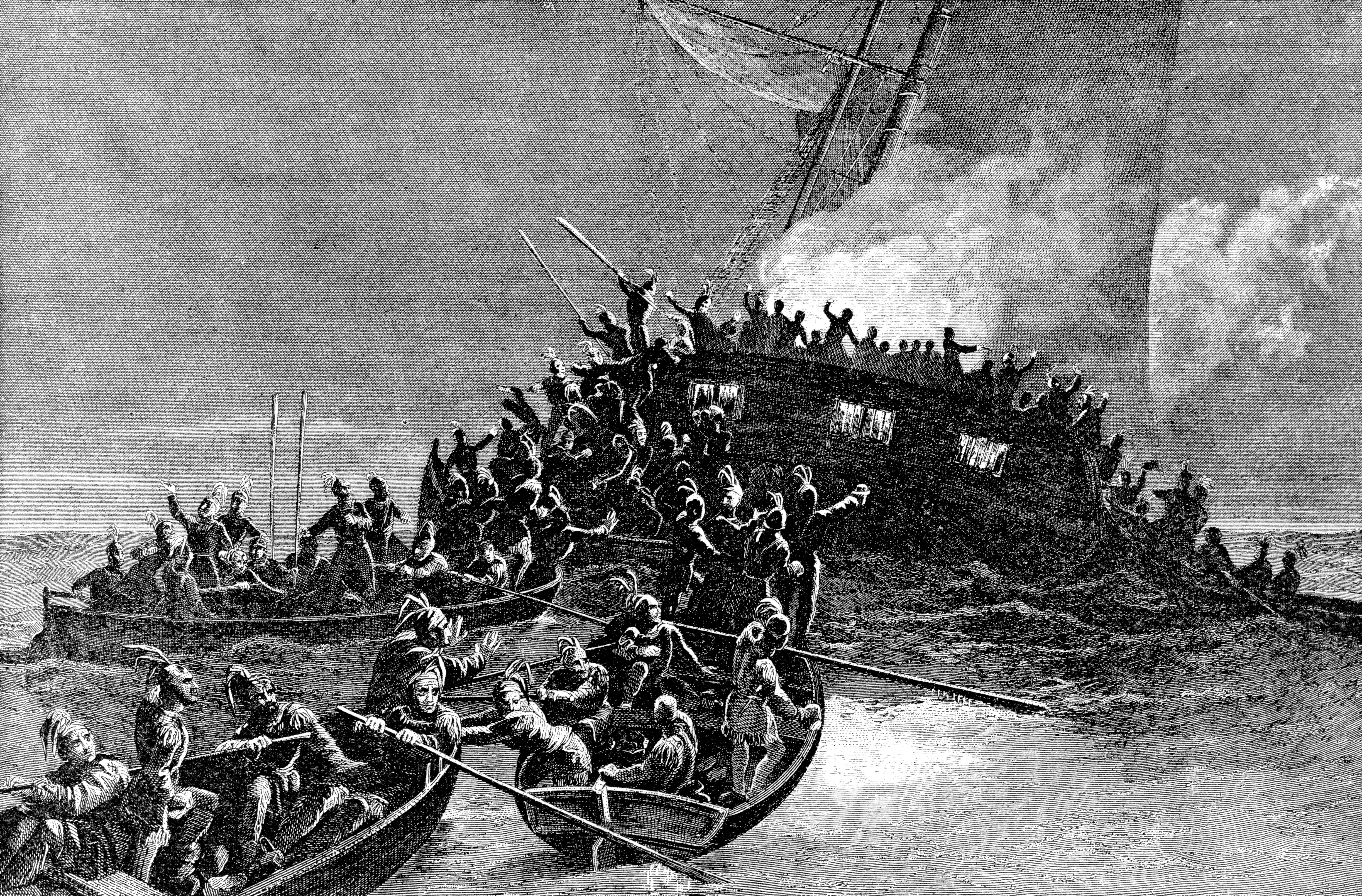 Destruction of the schooner gaspee, from an old engraving. The Providence Plantations for 250 Years (1886), page 59.